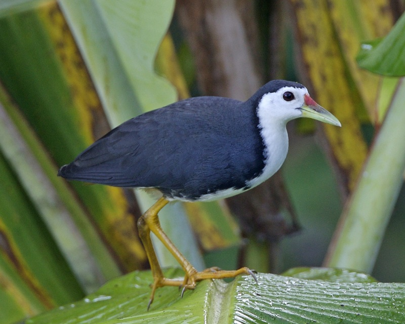 Up on a banana tree is not a place we normally expect to see a bird that is always reluctant to fly. [And why not? Charles (talk) 10:27, 2 January 2018 (UTC)] White-breasted Waterhen Amaurornis phoenicurus ssp Amaurornis phoenicurus leucomelana Ubud, Bali, Indonesia 28 September 2008 Distribution: 690V3343